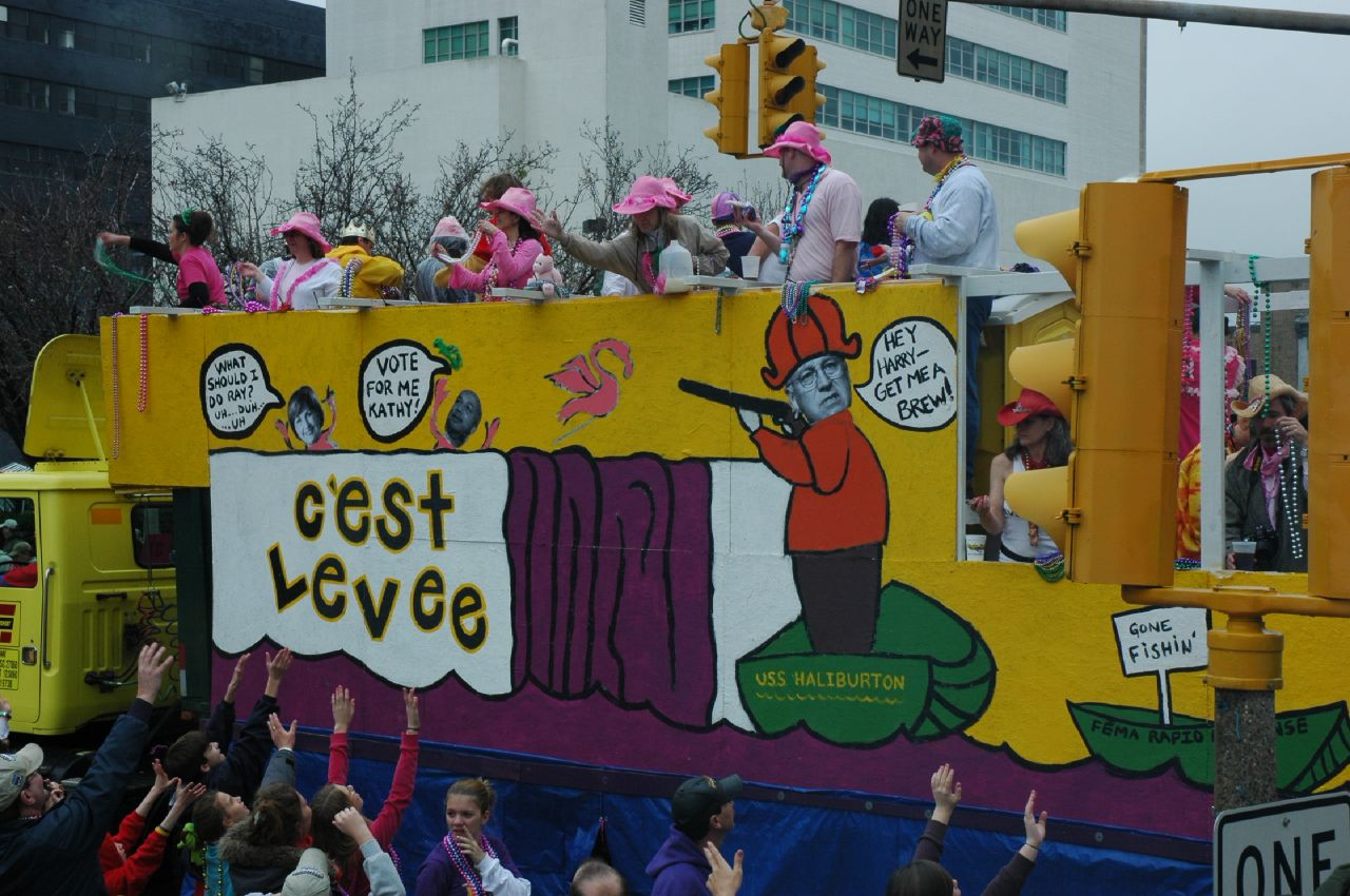 Spanish Town Parade, Mardi Gras in Baton Rouge, Louisiana.